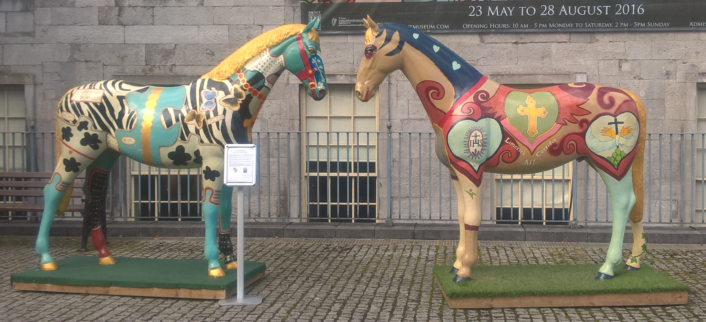 Two lifesize horse models painted decoratively outside the Hunt Museum, Rutland Street, Limerick, Ireland.